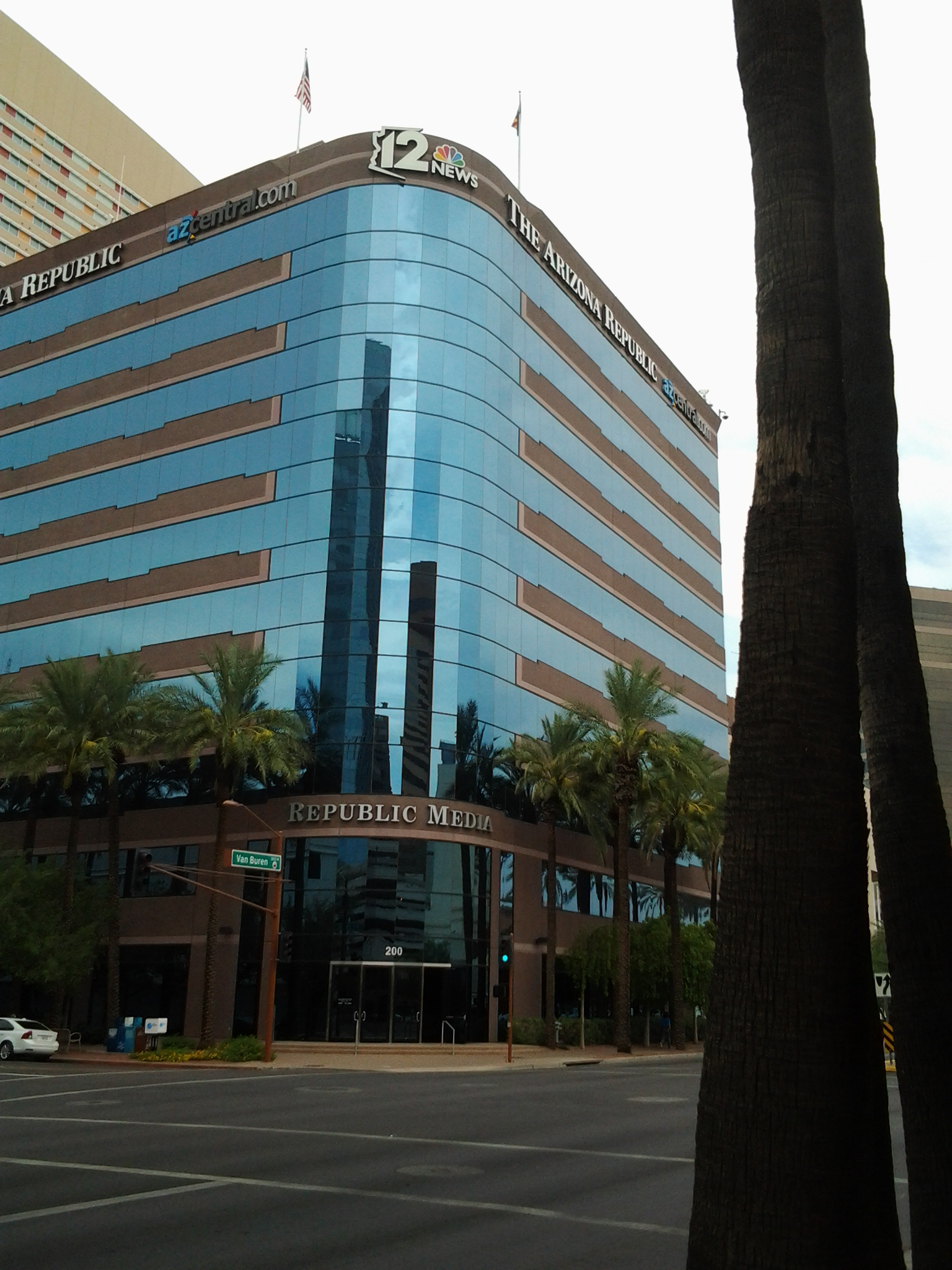 South-west corner of the Republic Media Building in Downtown Phoenix. Location of KPNX studios and The Arizona Republic